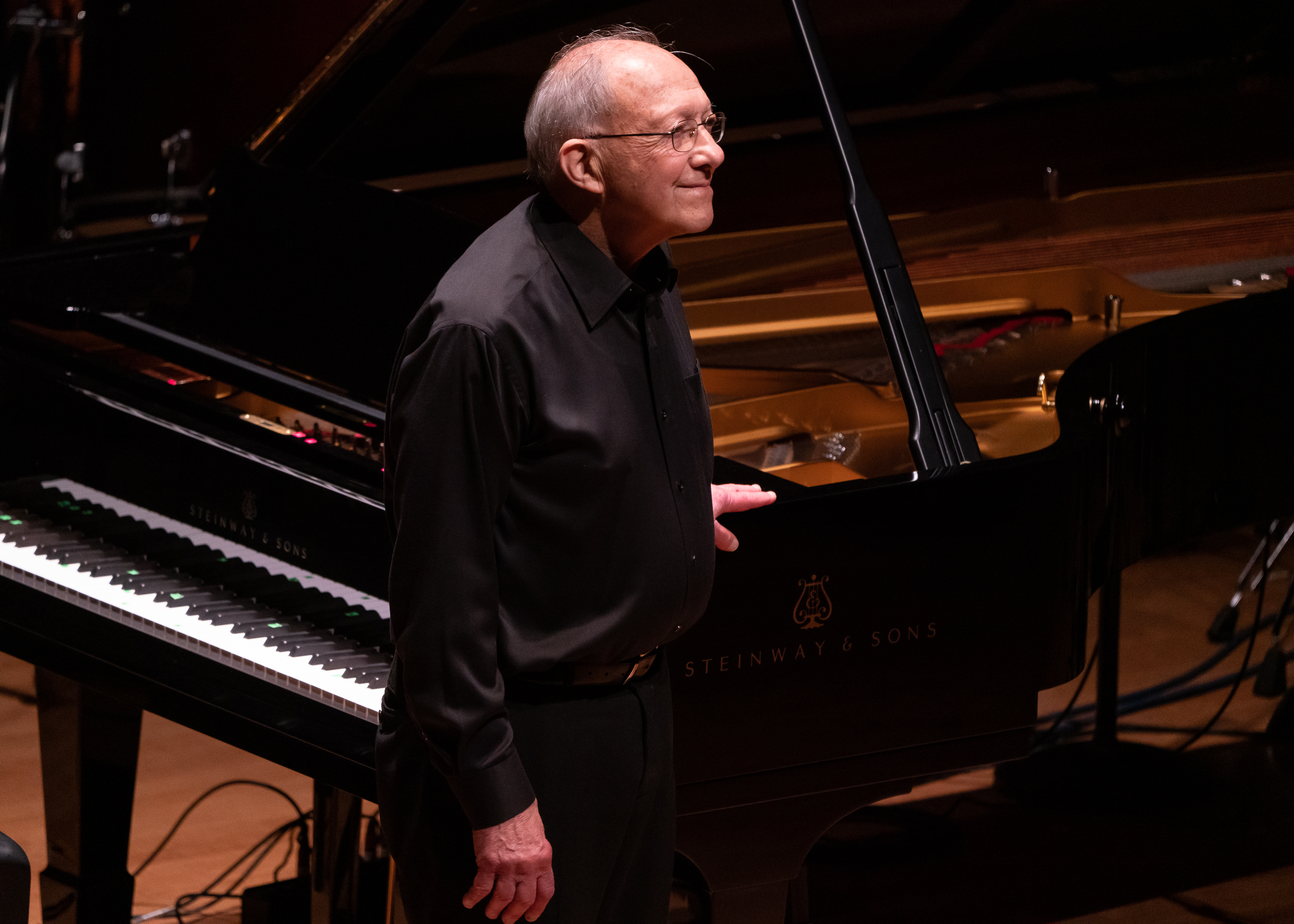 April 14, 2019 Alice Tully Hall Lincoln Center New York, NY Photo by Steven Pisano Gilbert Kalish